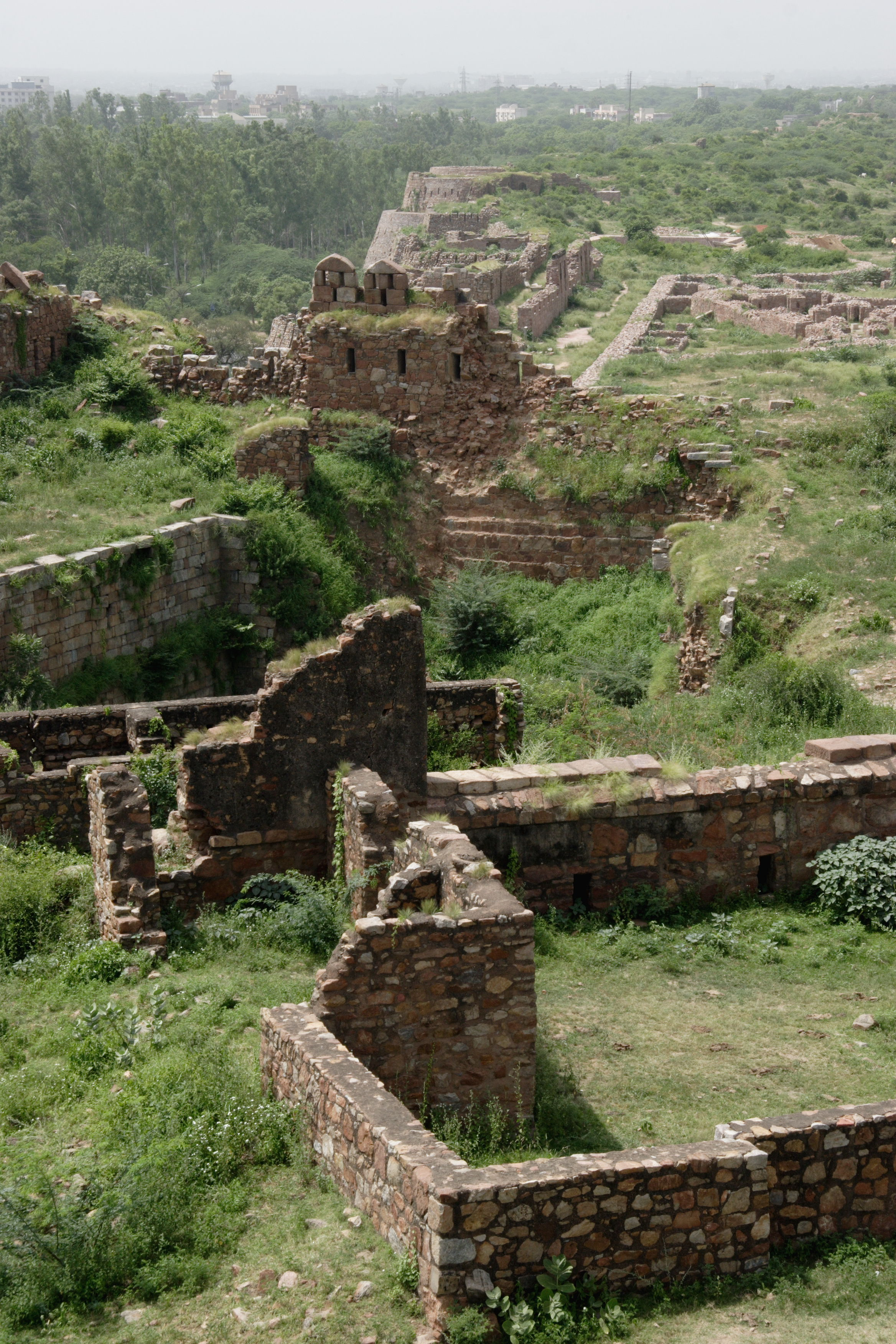 Massive fortifications of the third city of Delhi called Tughluqabad.